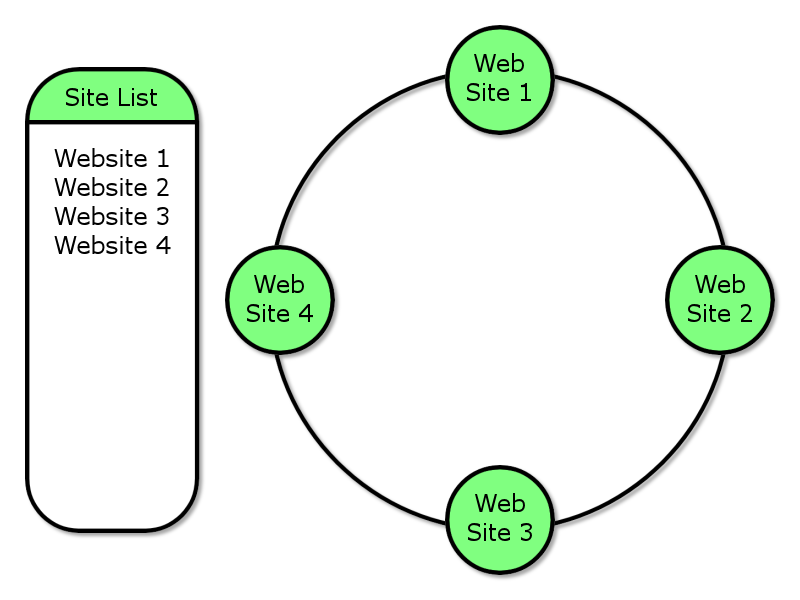 A picture of how a webring works.